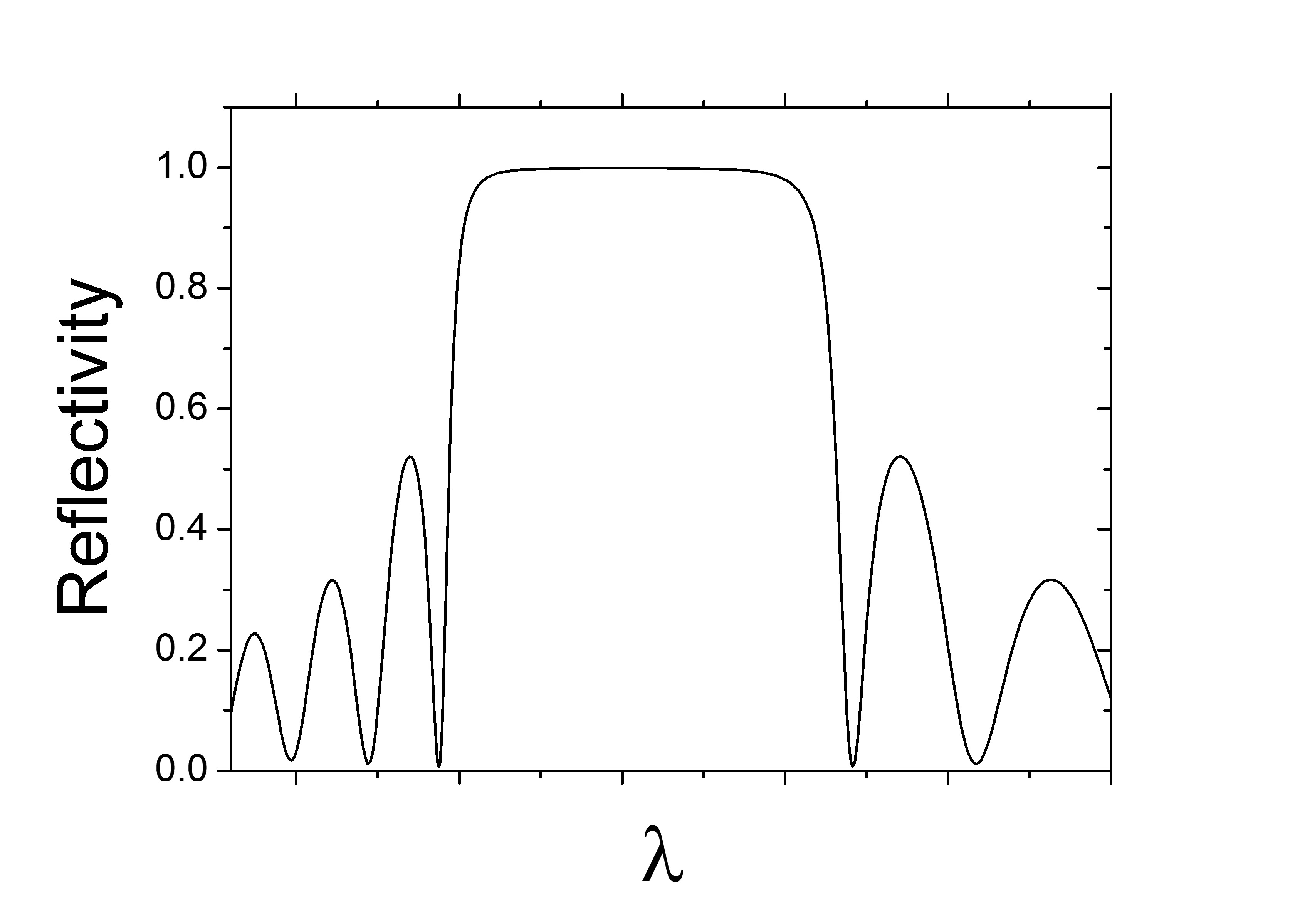 Calculated Reflectivity of a Distributed Bragg Reflector (DBR)